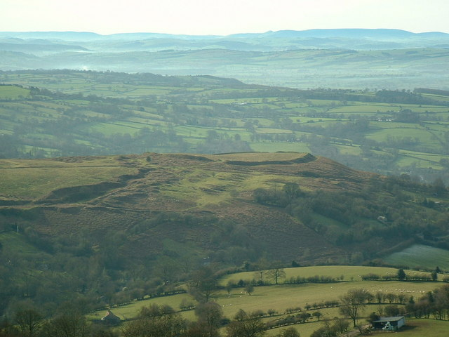 Nordy Bank Hillfort This view of Nordy Bank Hill fort (middle distance) is taken from the Shropshire Way on the main Brown Clee Hill and shows quite clearly the ramparts of the iron age hill fort and the spur of land upon which it sits. Corve Dale lies behind.